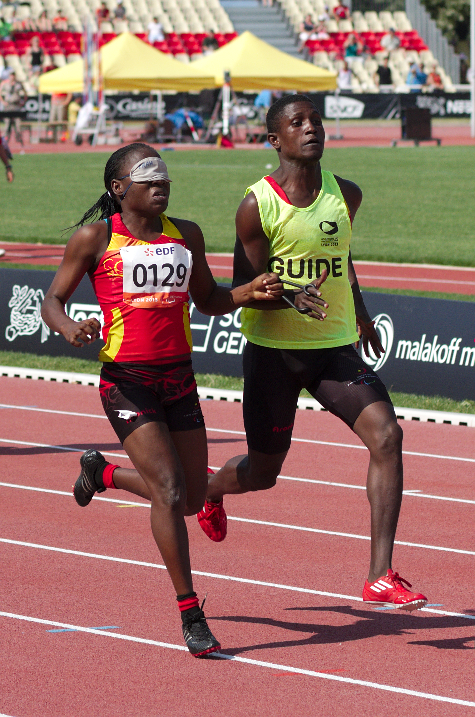 Esperanca Gicaso and Isaac Vieria Adao of Angola during the Women's 200m - T11 third semifinal